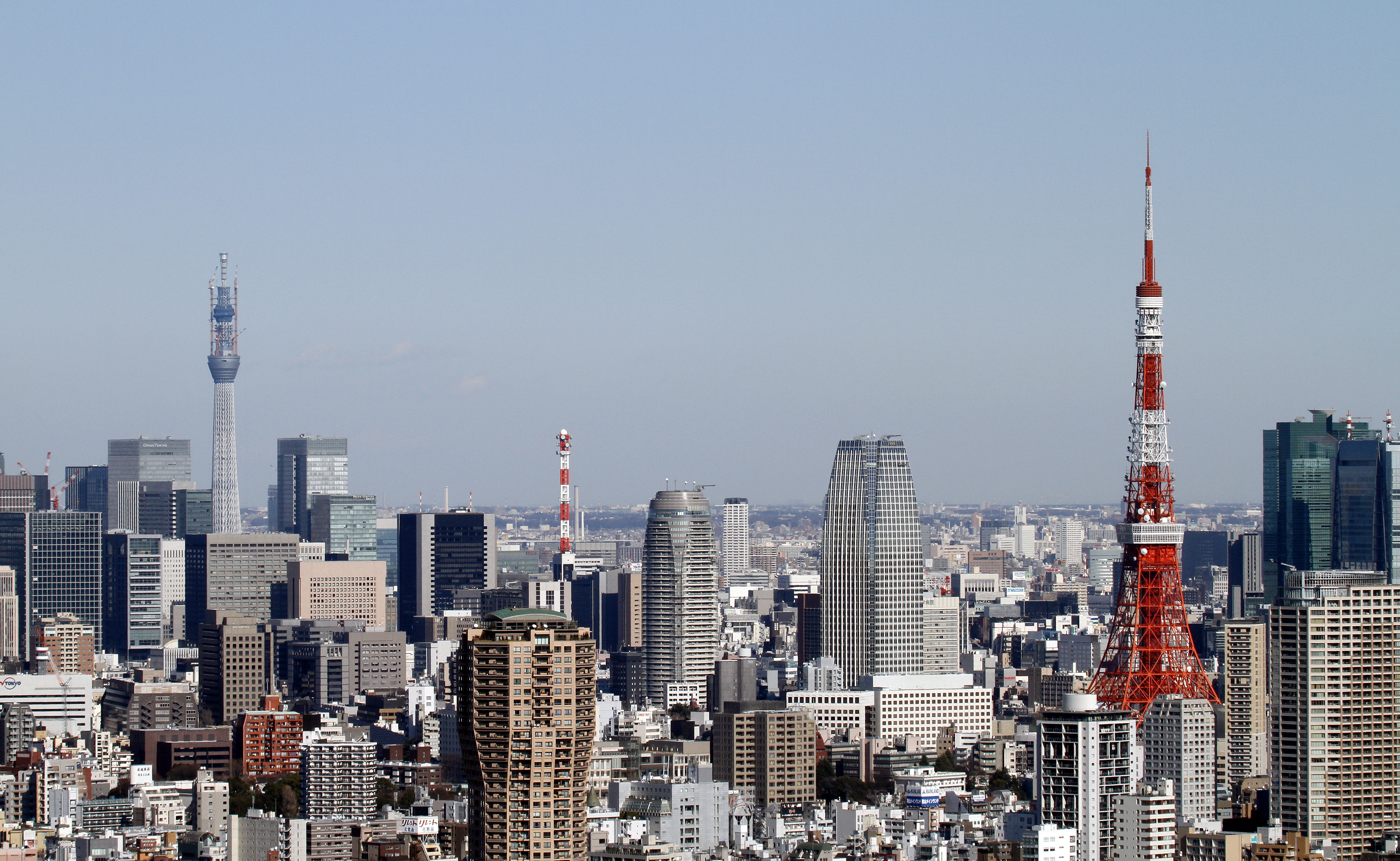 Tokyo Tower and the Tokyo Sky Tree from Yebisu Garden Place.